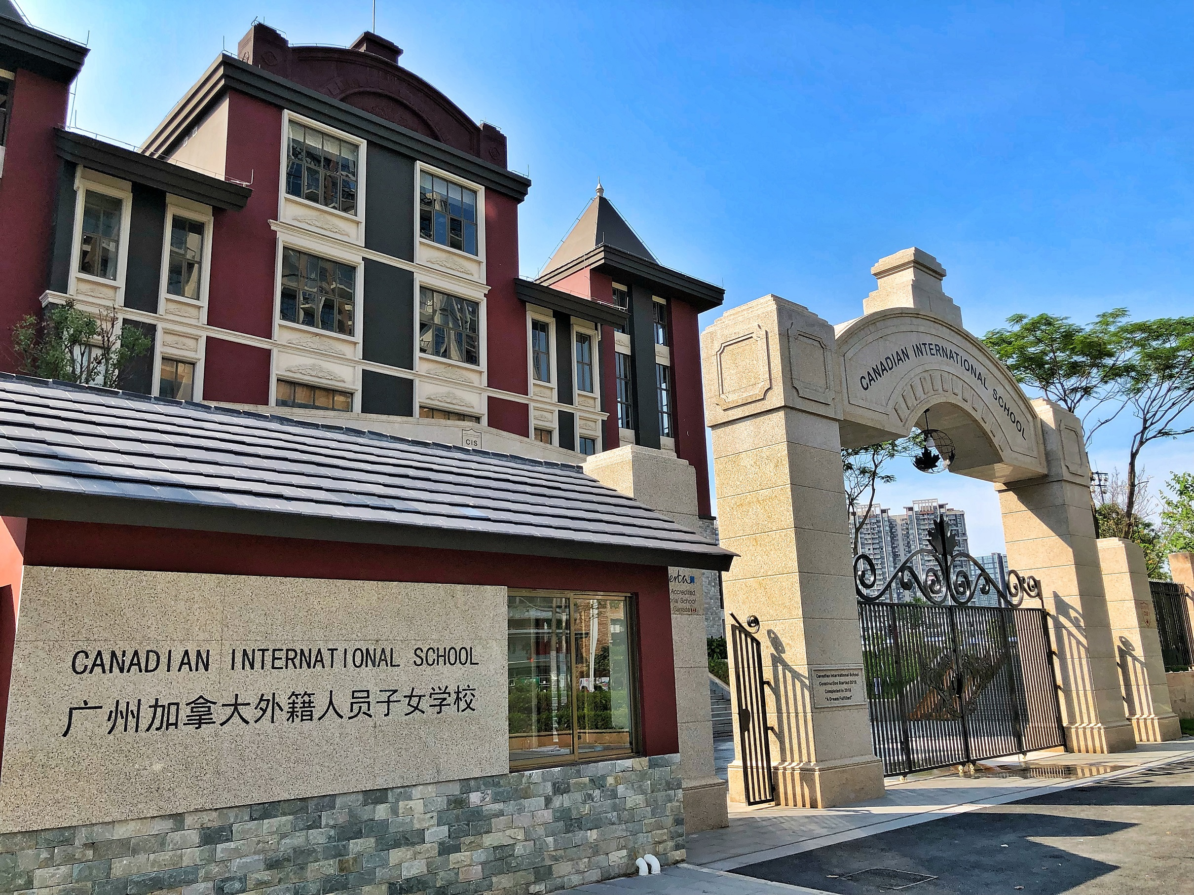 CISGZ Front Gate